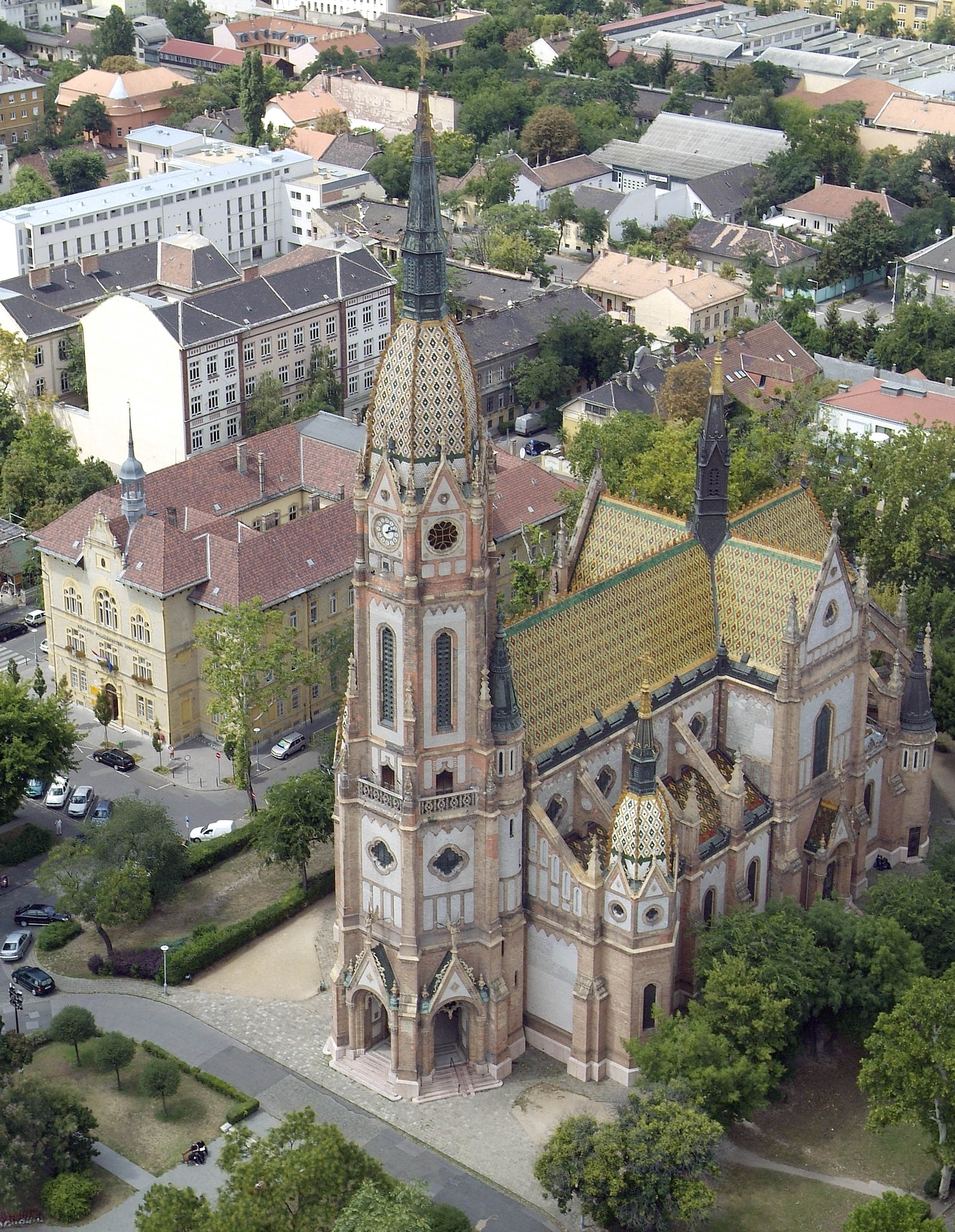 Saint Ladislaus Church in X. District Budapest, Hungary, aerial photography, This is a photo of a monument in Hungary. Identifier: 1091